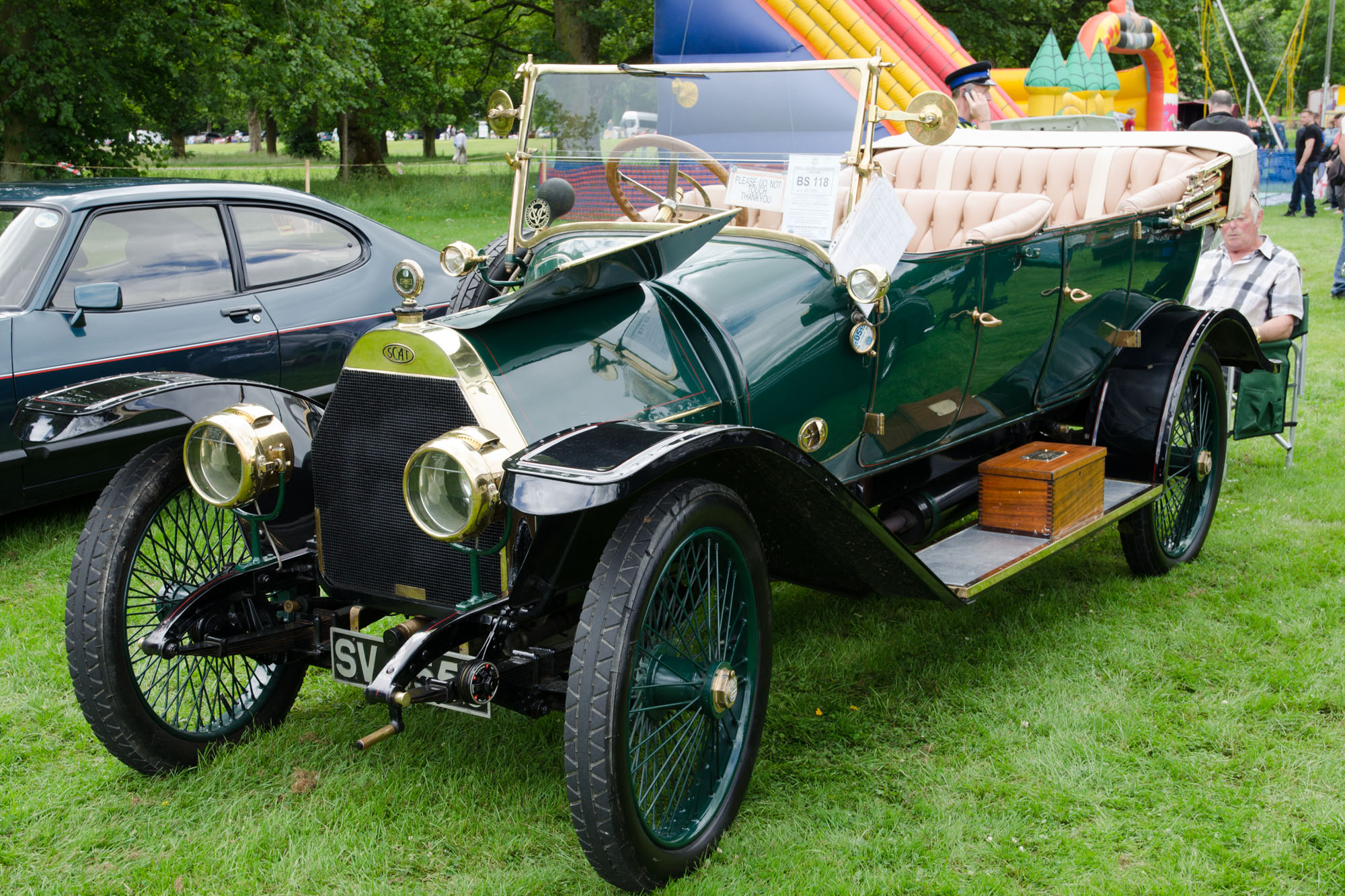 1913 S.C.A.T. torpedo Burnley Classic Car Show at Towneley Park 29/06/2014